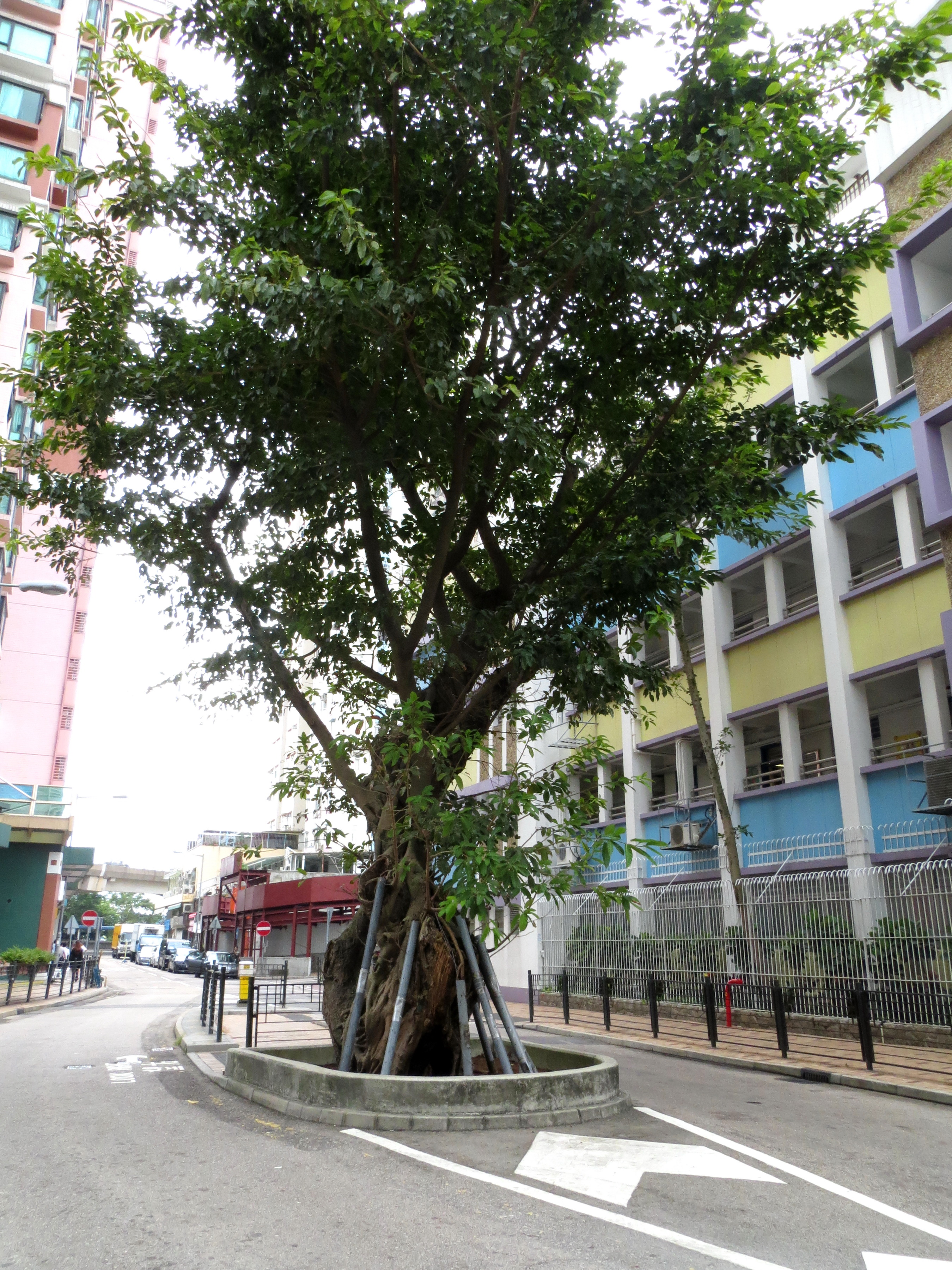 A Ficus virens var. sublanceolata on Shau Kei Wan Main Street East, in front of Shau Kei Wan Government Primary School, Hong Kong. Old and Valuable Trees Registration No.: LCSD E/15